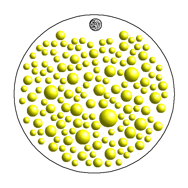 A diagrammatic section through a telolecithal egg.